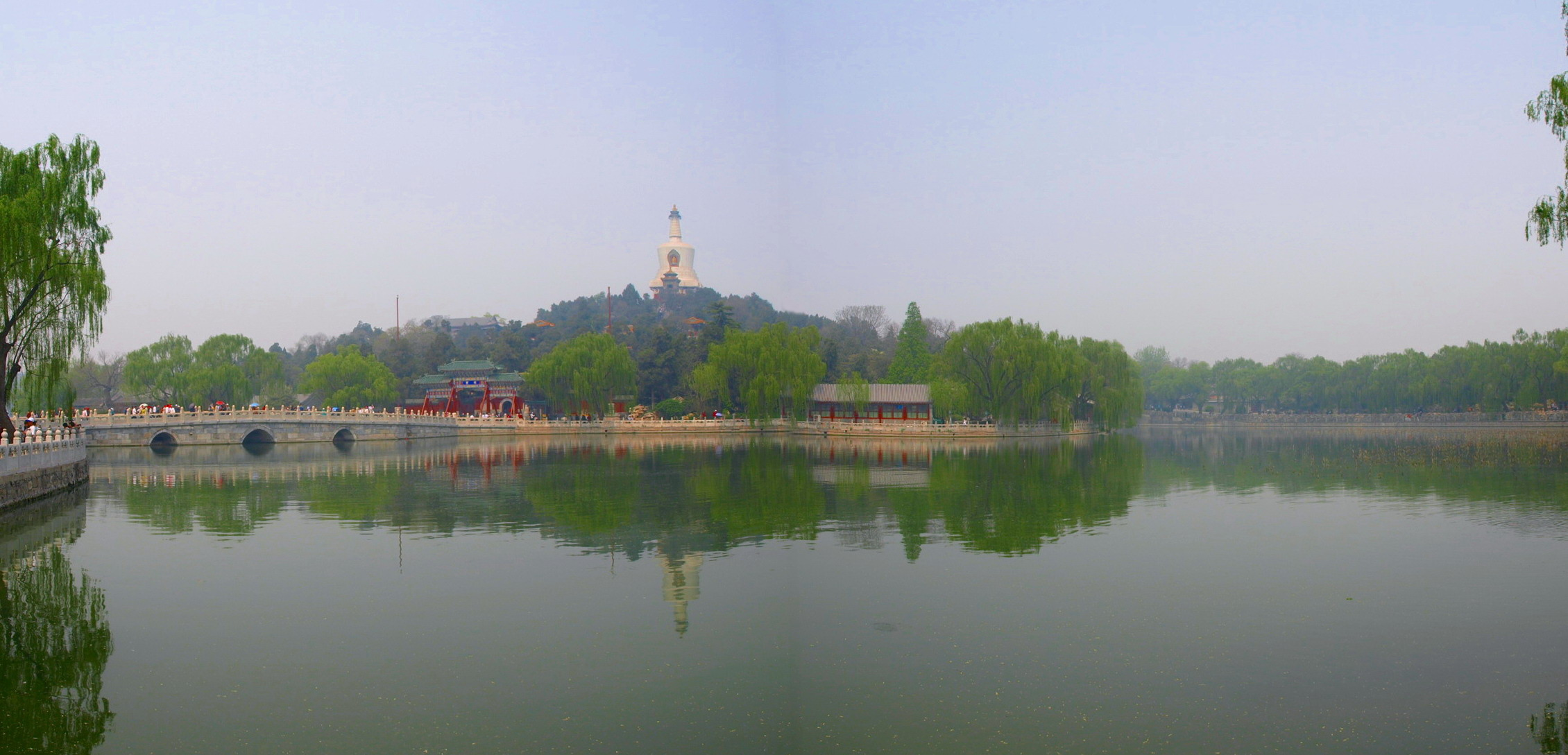 This is a photo of Beihai Park which is located northwest of the Forbidden City in Beijing.